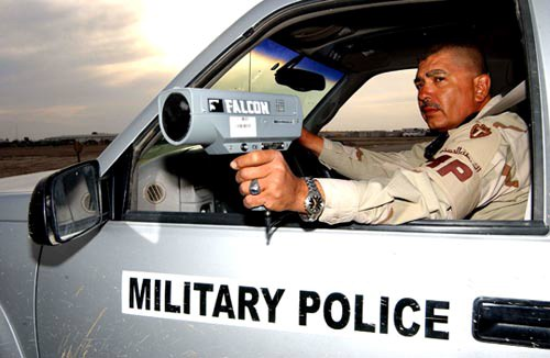 TALLIL AIR BASE, Iraq -- Army Sgt. Jessie DeLarosa uses a custom signal Falcon K-band police radar gun to catch speeding violators here. He is a military policeman with the Texas Army National Guard's 36th Infantry Division and is deployed from San Antonio.